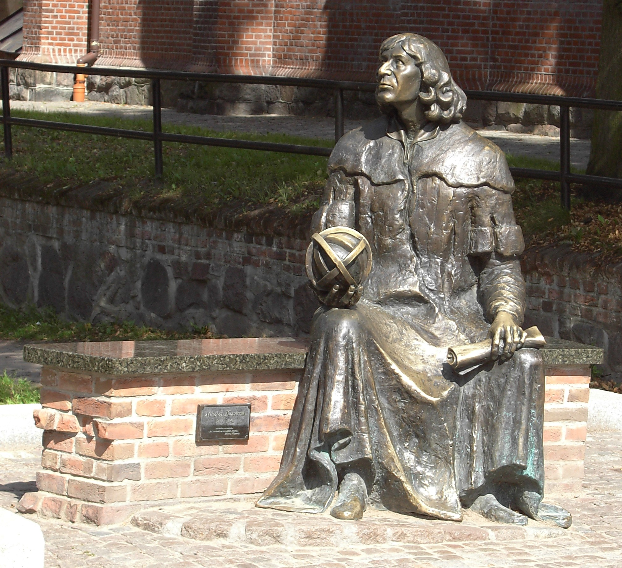 Bronze monument to Nicolaus Copernicus at entrance to the castle in Olsztyn (Allenstein).